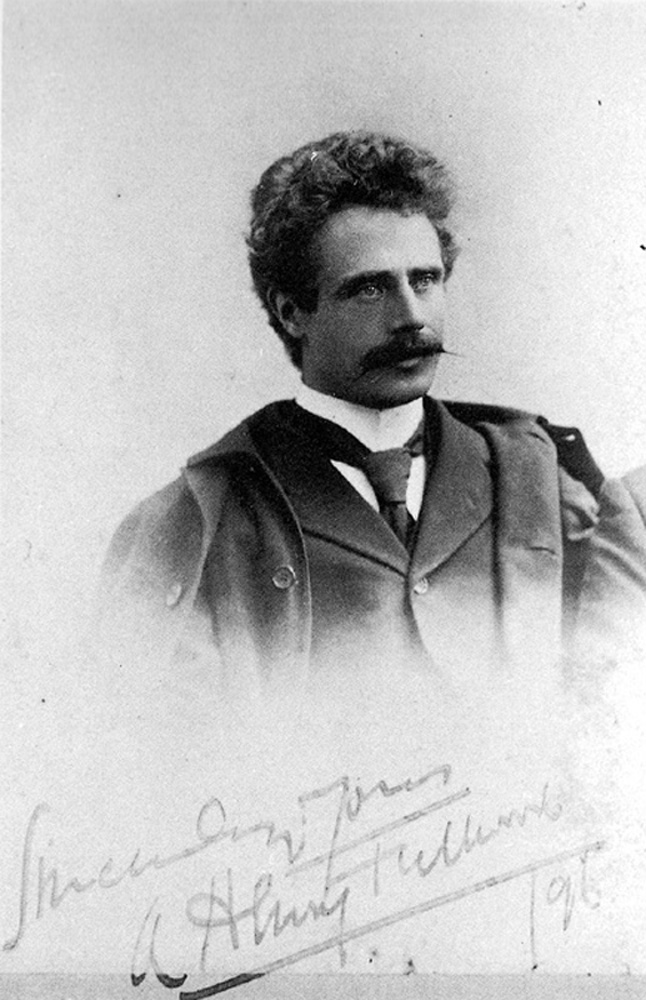 Albert Henry Fullwood (1863-1930)Australian artist circa 1896